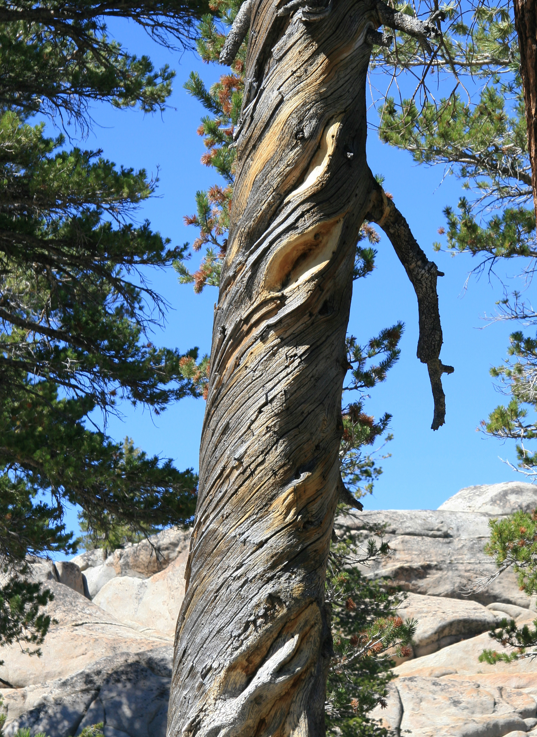 Dead lodgepole pine (Pinus contorta), showing the quite usual, strongly spiral twist of the wood grain. Near Lake Lertoria, Emigrant Wilderness, Sierra Nevada USA.